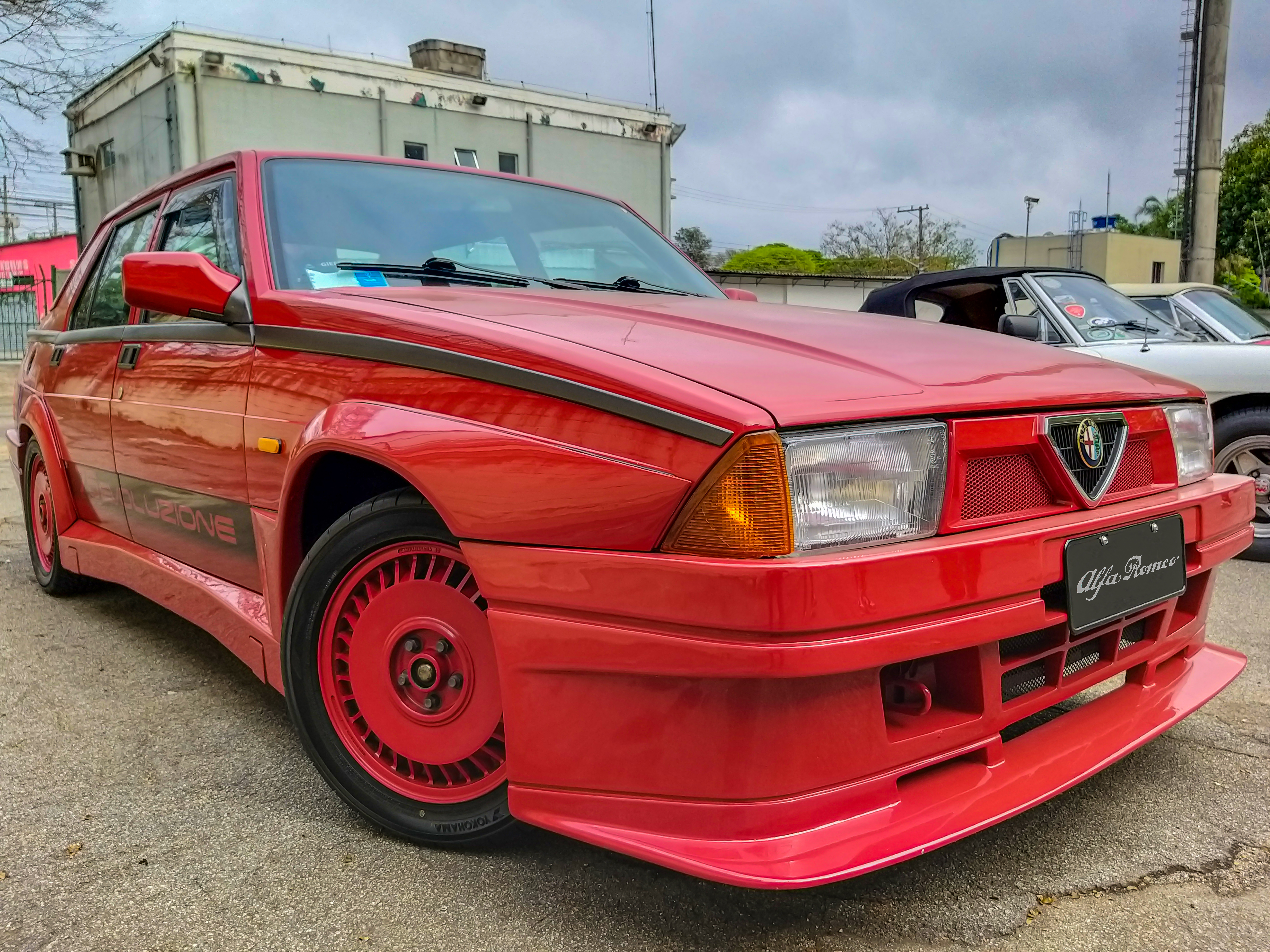 Alfa Romeo 75 Turbo Evoluzione, front